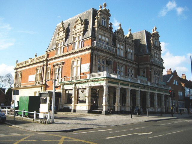 Chingford: The Bull and Crown Public House This landmark building in Chingford is Edwardian with, according to Pevsner, terra-cotta decoration "in the wildest Loire style". It is on the junction of the A110 Kings Road with the A1069 Station Road at The Green. Pretoria Road is the street down to the left in the photograph here.